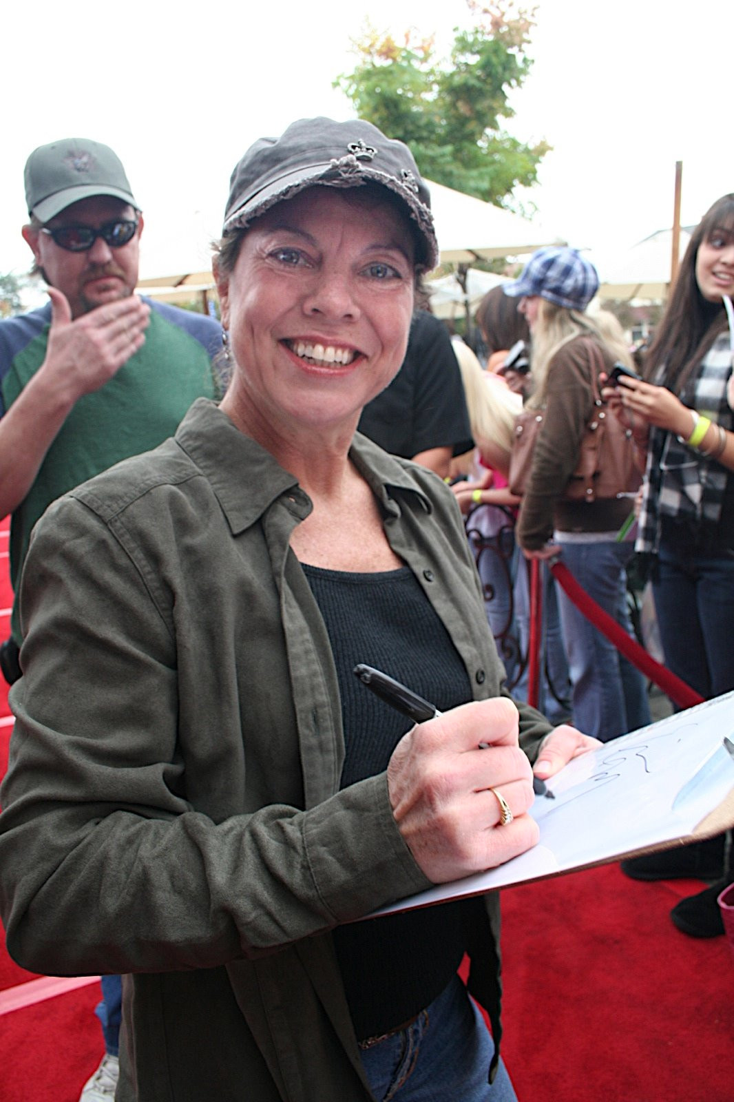 American actress Erin Moran, best known for her turn on the legendary TV series, Happy Days signs autographs on the red carpet at the 62nd Annual Mother Goose Parade in San Diego County. Photograph by Mother Goose Parade / Popular Press Media Group (PPMG) - . For more...